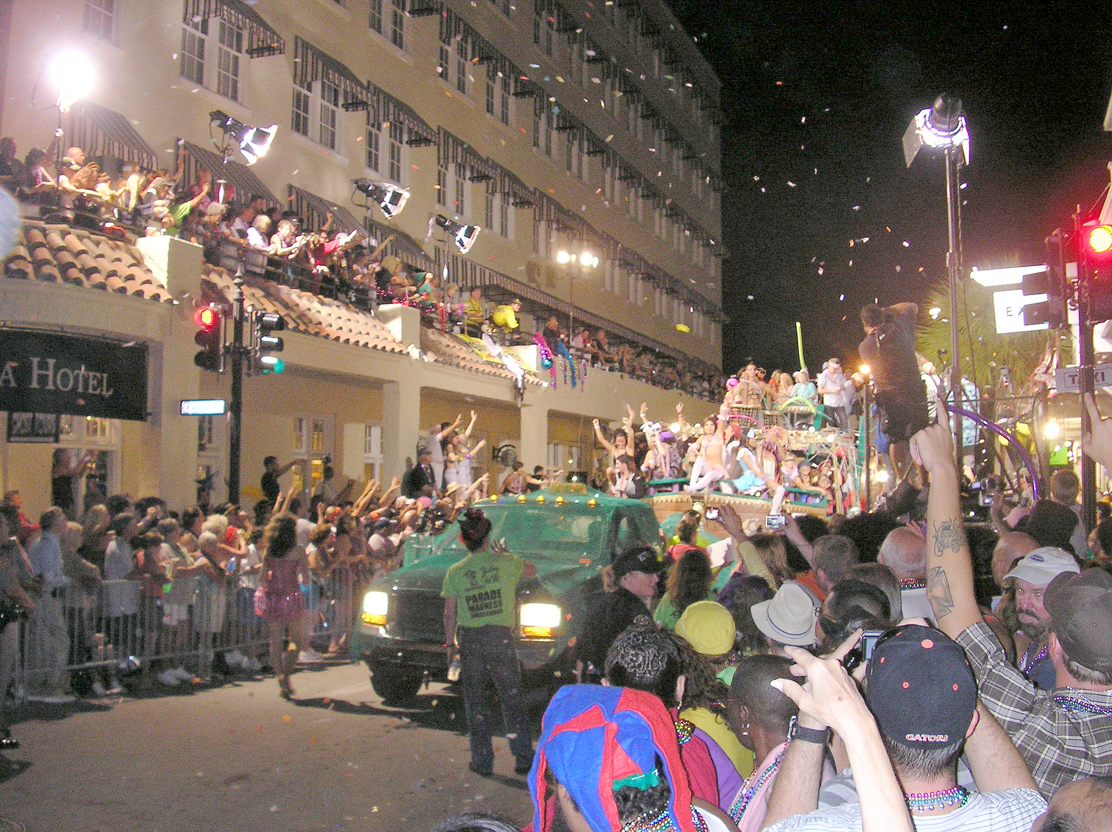 A float during the 2007 edition of the Fantasy Fest parade